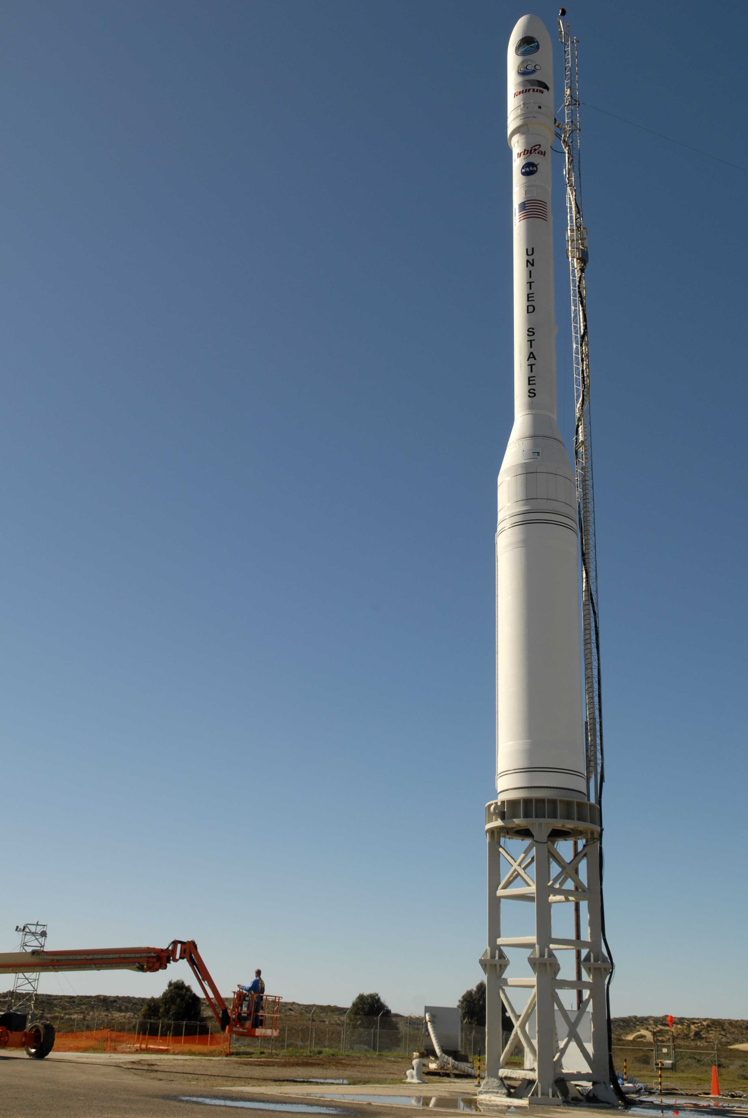 A Taurus-3110 (Taurus XL) with NASA's Orbiting Carbon Observatory on board awaiting launch.